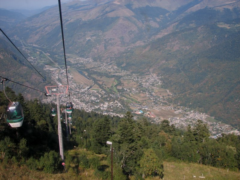 Bagneres de Luchon